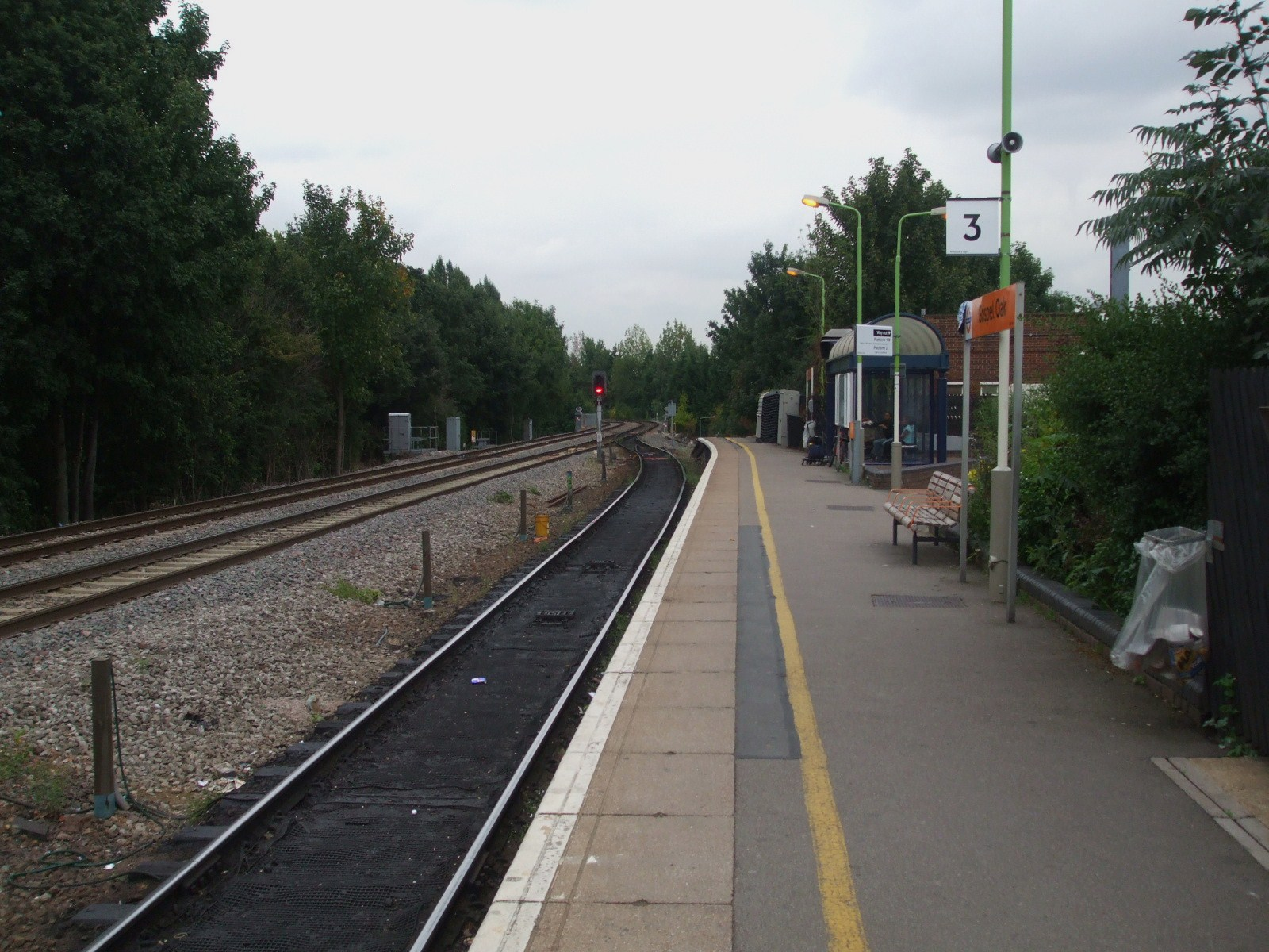 Gospel Oak station Gospel Oak to Barking Line bay platform looking east. Note that there are no platforms on the through route joining the North London Line and that all the tracks are unelectrified.